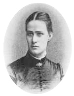 Elsa Eschelsson (1861-1911), the first woman to finish a doctorate in Laws in Sweden and the first to be appointed a docent in a Swedish university. Image source: Gothenburg University Library, Women's history project